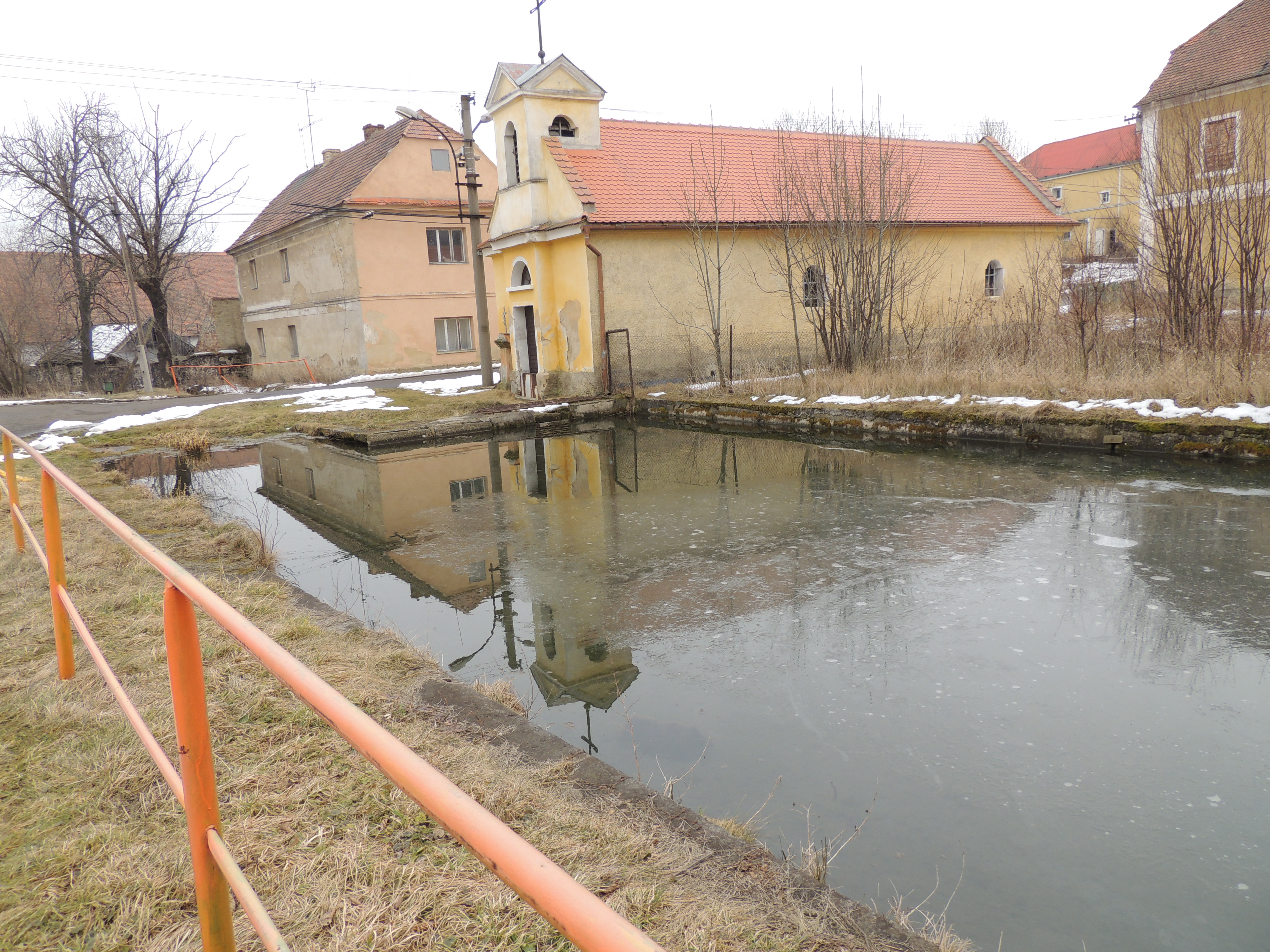 Chapel from 1844 in Němčany